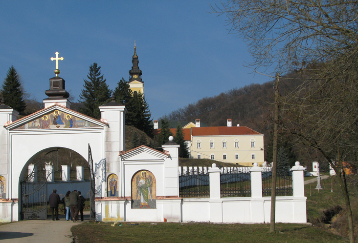 Monastery Grgeteg, Fruška Gora, Serbia